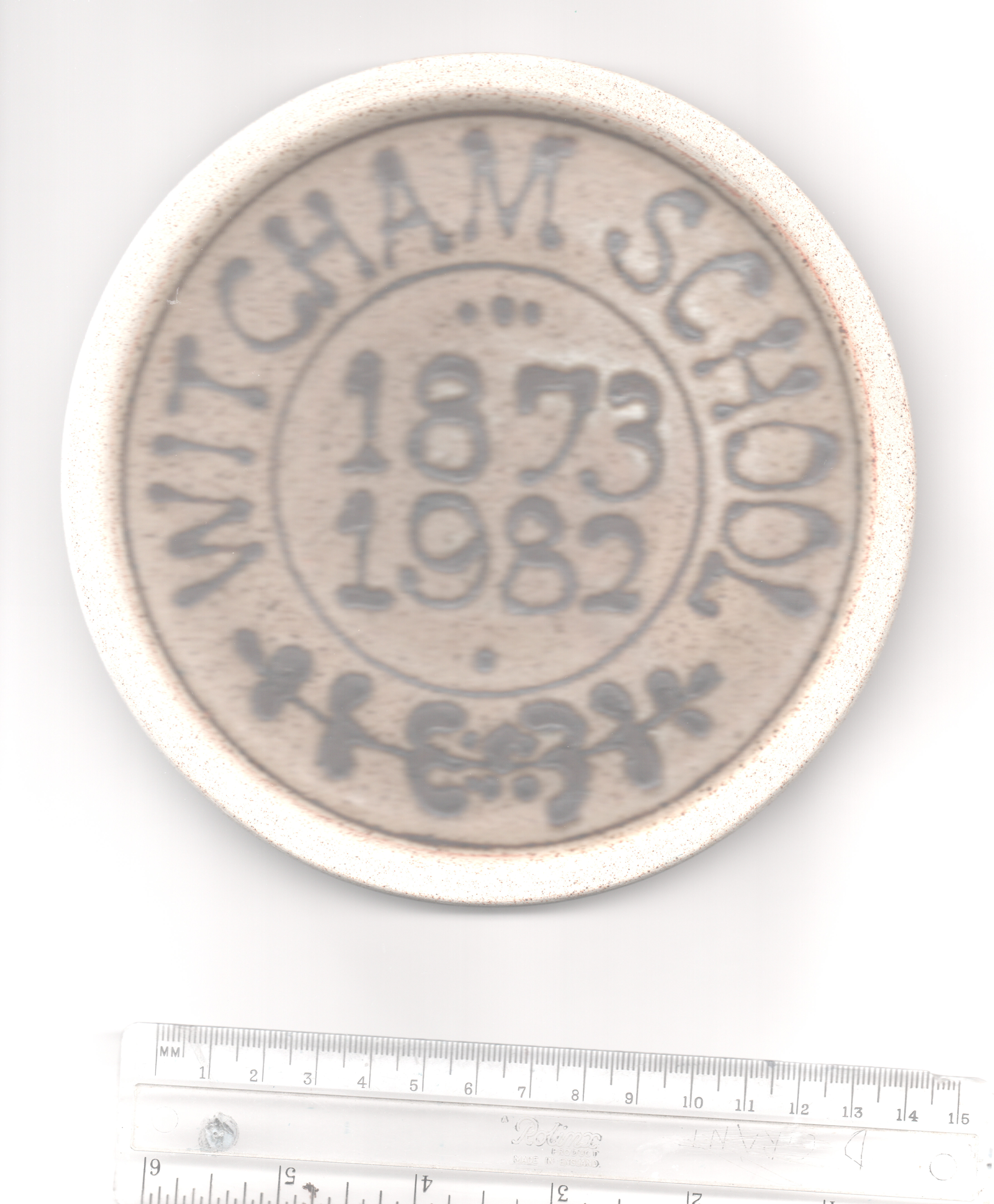 Commemoration Plate for the closure of Witcham junior and infants School in 1982. (Witcham nr Ely Cambs UK)